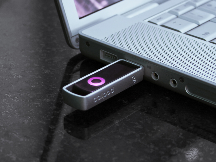 The Drone into the USB port of your computer, and it will immediately connect with your Bluetooth headset or headphones to provide streaming music and voice over a 100 meter (328ft) range. There is no software to install because the Drone has on-board software which communicates with your headset. The computer sees the Drone as a USB speaker and simply routes the audio automatically. When a Skype call comes in, Drone switches over to the call automatically. When used with the Callpod Dragon headset you can enjoy the full 100 meter range. Supports A2DP (Stereo) Bluetooth profile.